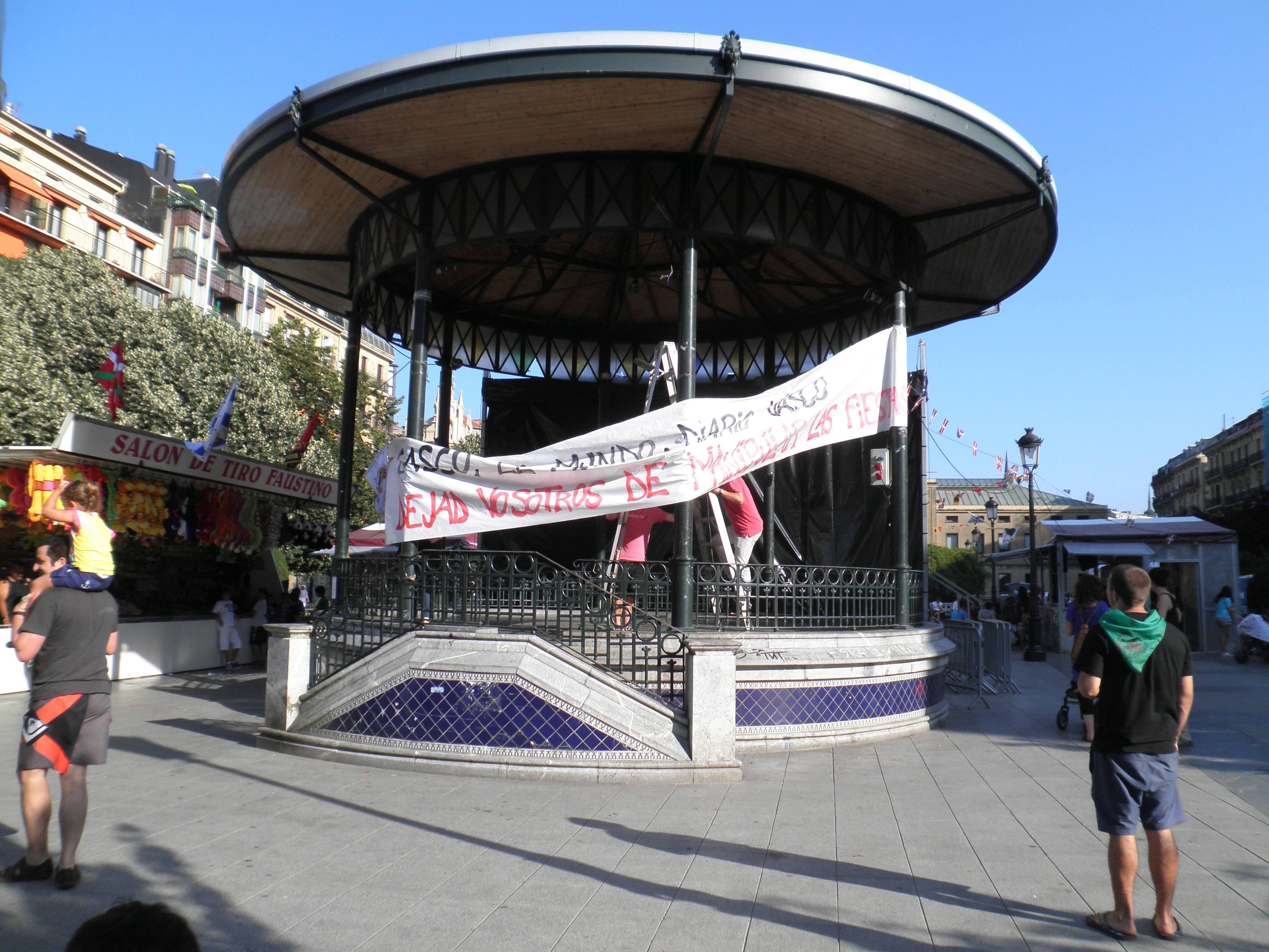 Banner protesting against the manipulation of media about festivals in Amara Zaharra.